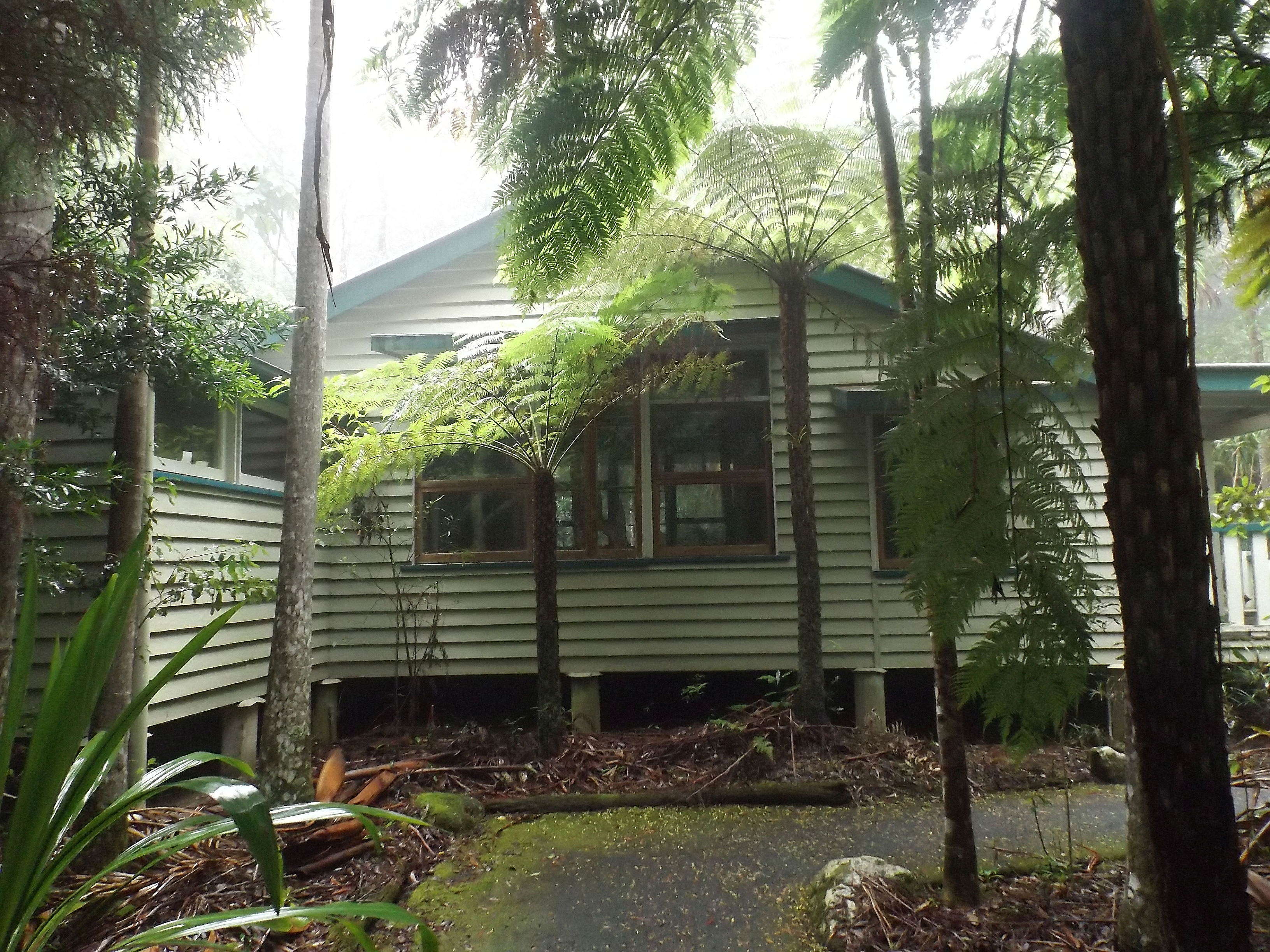 Photo of the former Springbrook State School, now a national park information centre, at Springbrook, City of Gold Coast, Queensland, Australia.